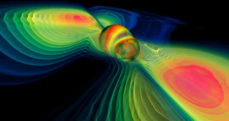 Numerical simulation of two merging black holes performed by the Albert Einstein Institute in Germany: what this rendition shows through colors is the degree of perturbation of the spacetime fabric, the so-called gravitational waves. Image credit: Werner Benger.